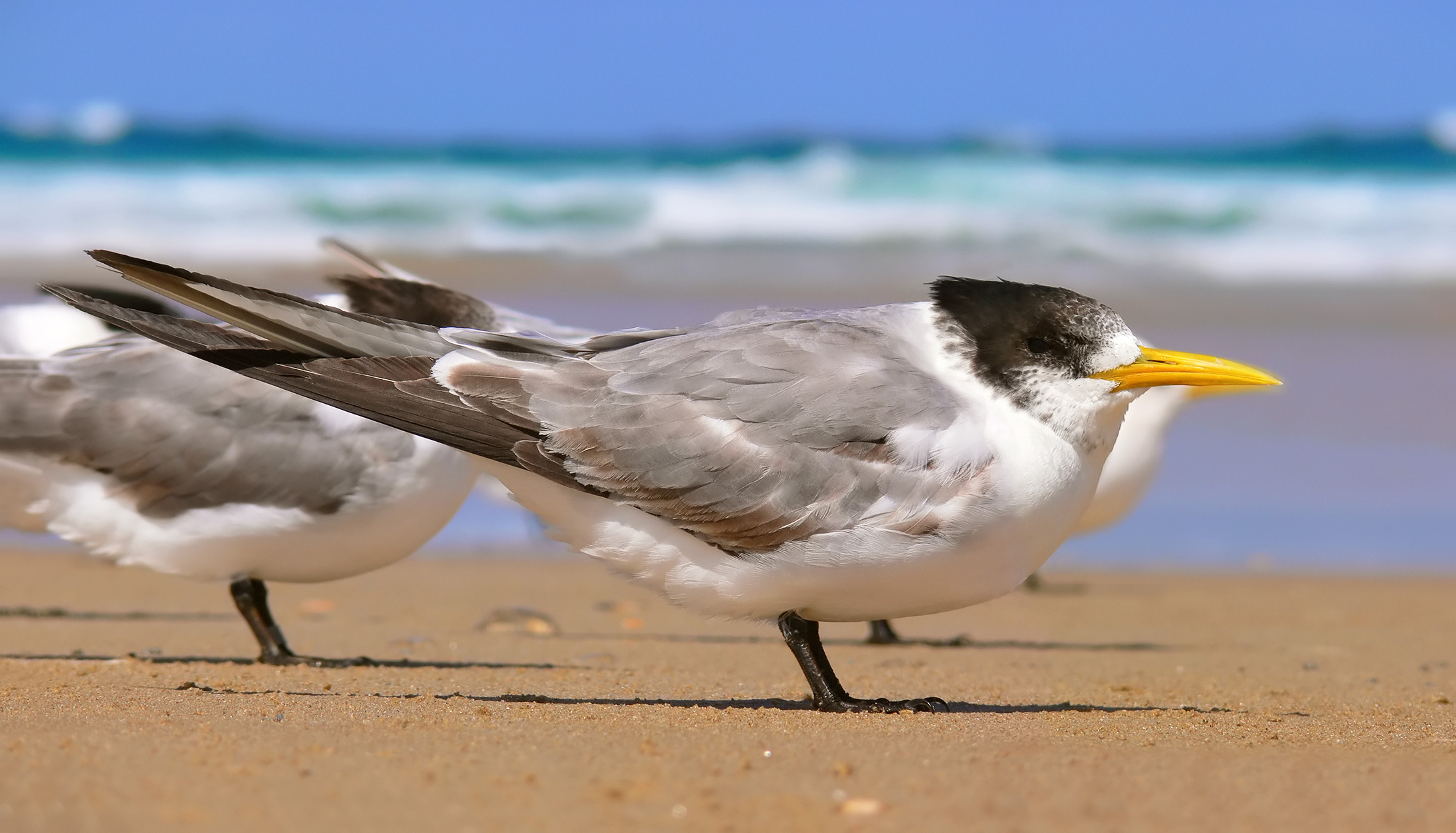 A crested tern in first year plumage. Thalasseus bergii Syn. Sterna bergii